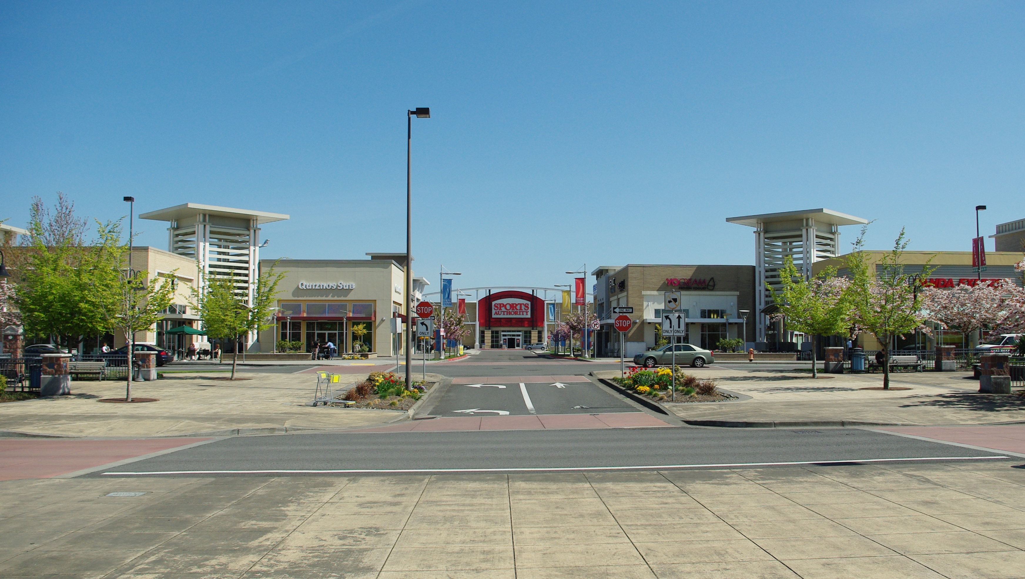 Entrance to Cascade Station shopping center in Northeast Portland, Oregon.